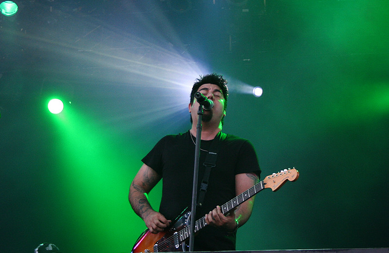 Taken from the crowd at the fantastic Deftones concert @ Hultsfred 2006. Here they're playing 'Beware', my all time favourite Deftones song.